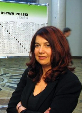 The Polish Chess Grandmaster Agnieszka Brustman 2004 in Warsaw.